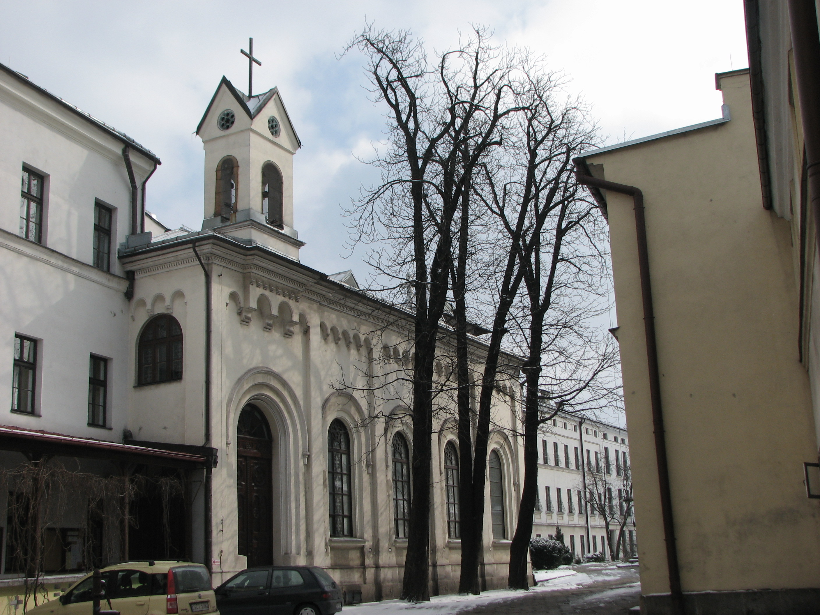 Chapel of The Holy Family in Cieszyn.